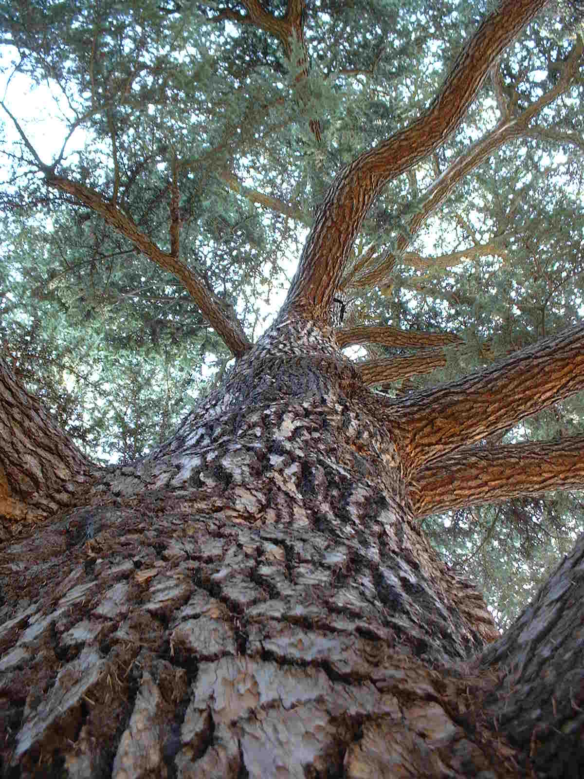 Lebanon Cedar, planted by First Consul Napoléon Bonaparte on the occasion of his victory in the Battle of Marengo in 1800.